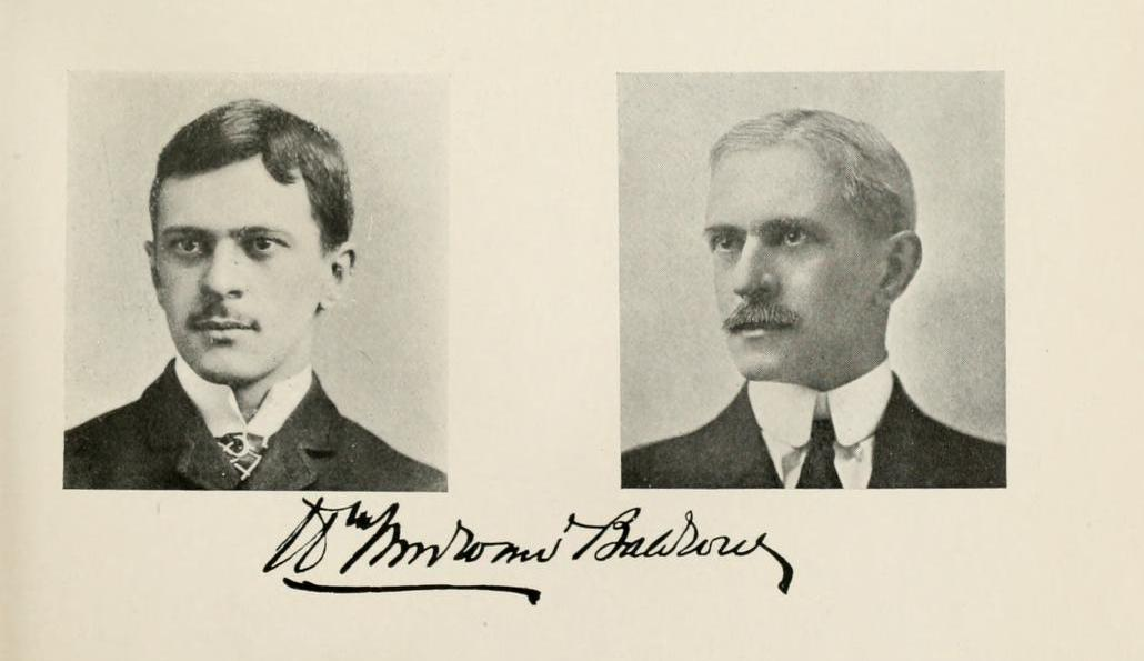 William Woodward Baldwin, two photos and his signature.